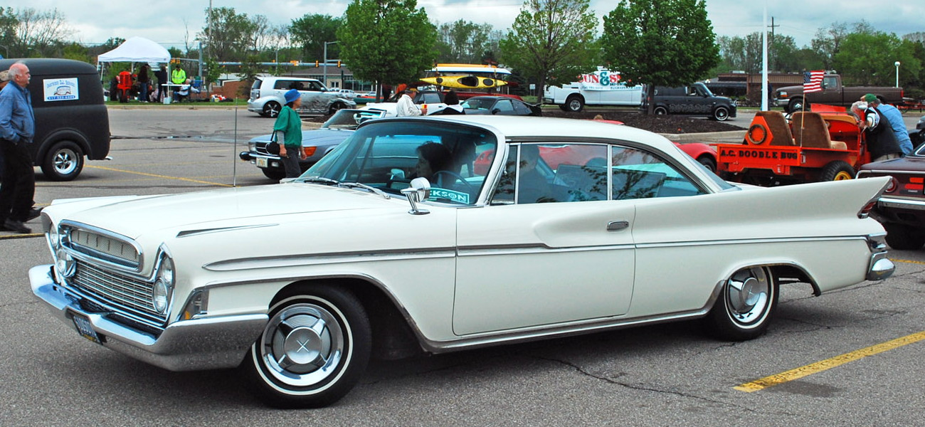 1961 DeSoto at The first annual Jackson Road Cruise in Ann Arbor, Michigan, May 16, 2009. 1961 was the last year for the DeSoto. There were no model names in 1961, despite what the description below says.